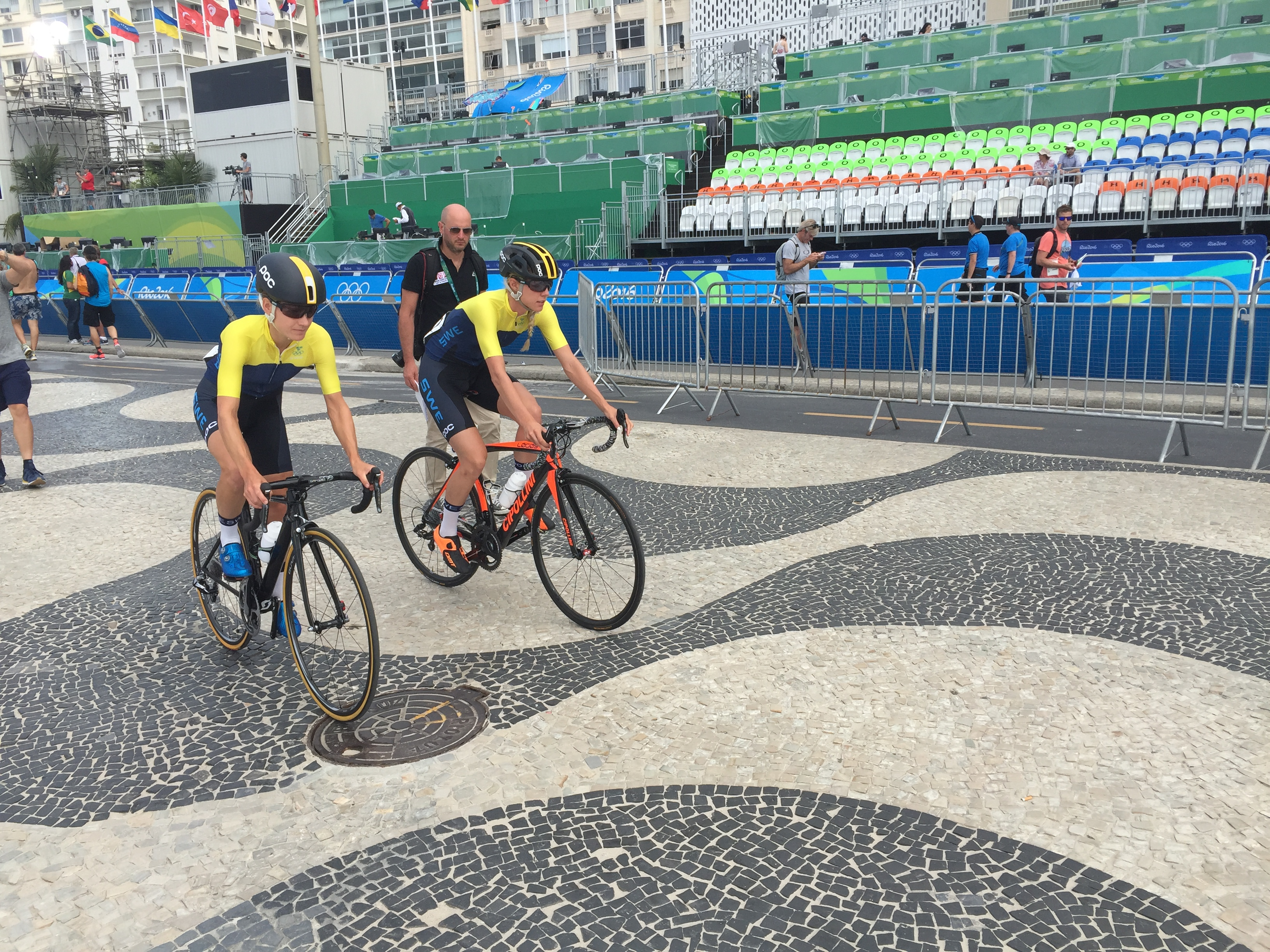 Women's road race - Rio 2016